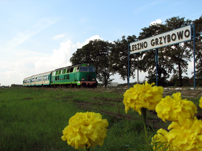 Railstation Leszno Grzybowo, woj, wielkopolskie, Poland